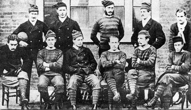 Royal Engineers AFC team. Back: Merriman, Ord, Marindin, Addison, Mitchell; Front: Hoskyns, Renny-Tailyour, Creswell, Goodwyn, Barker, Rich.